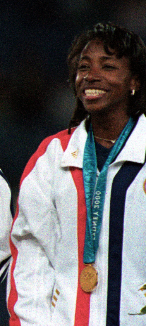 Jearl Miles Clark - September 30th, 2000 at the 2000 Sydney Olympic Games.